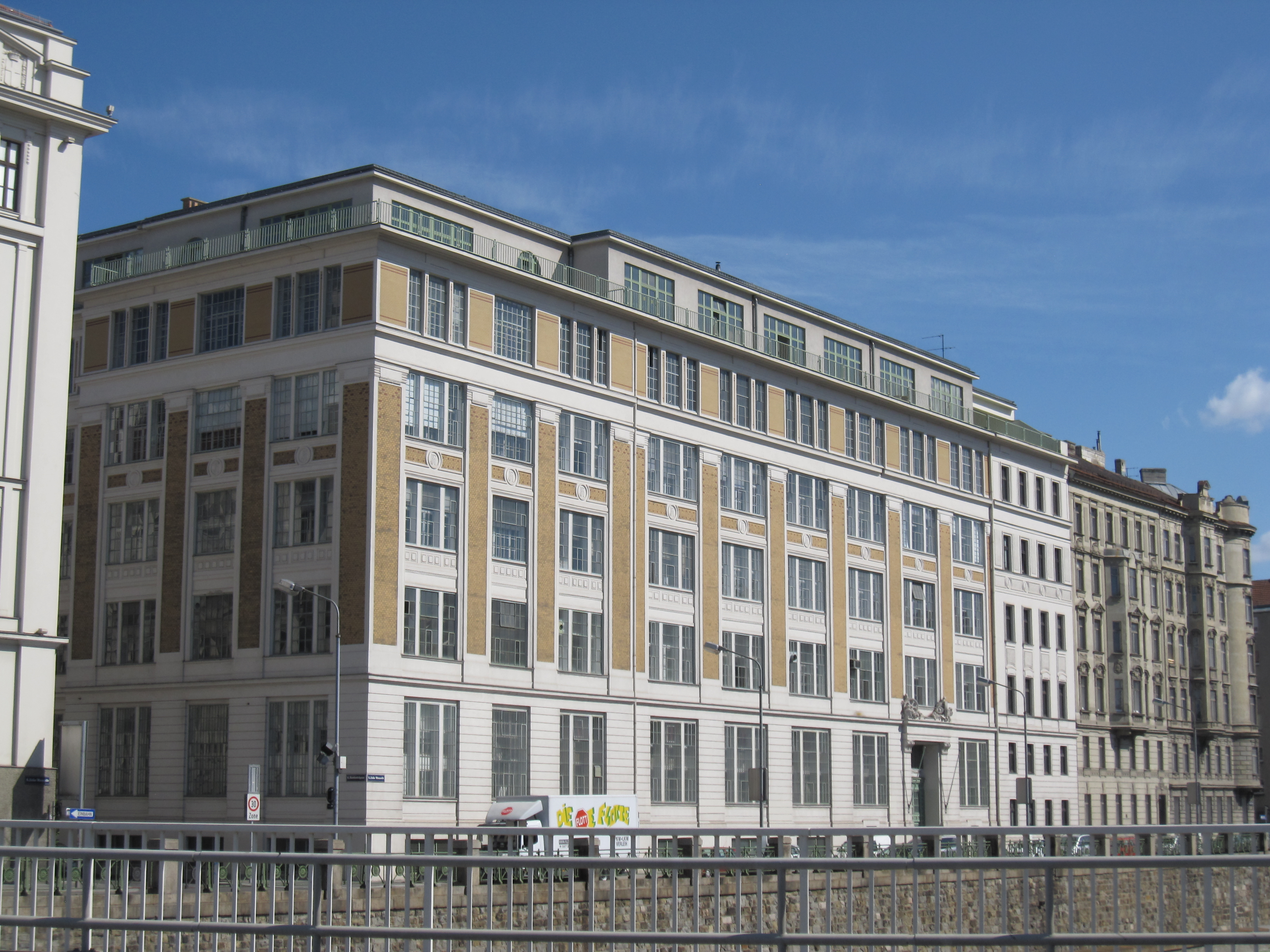 The Kaiser-Franz-Josef-Jubiläumswerkstätten-Hof, also known shorthand as Jubiläumswerkstättenhof, on Mollardgasse 85-85A in Mariahilf in Vienna was built by Otto Richter and Leopold Ramsauer in 1909 for the occasion of Emperor Franz Joseph´s diamond jubilee as Emperor of Austria. Today it houses apartments and office rooms and workshops for commercial enterprises.